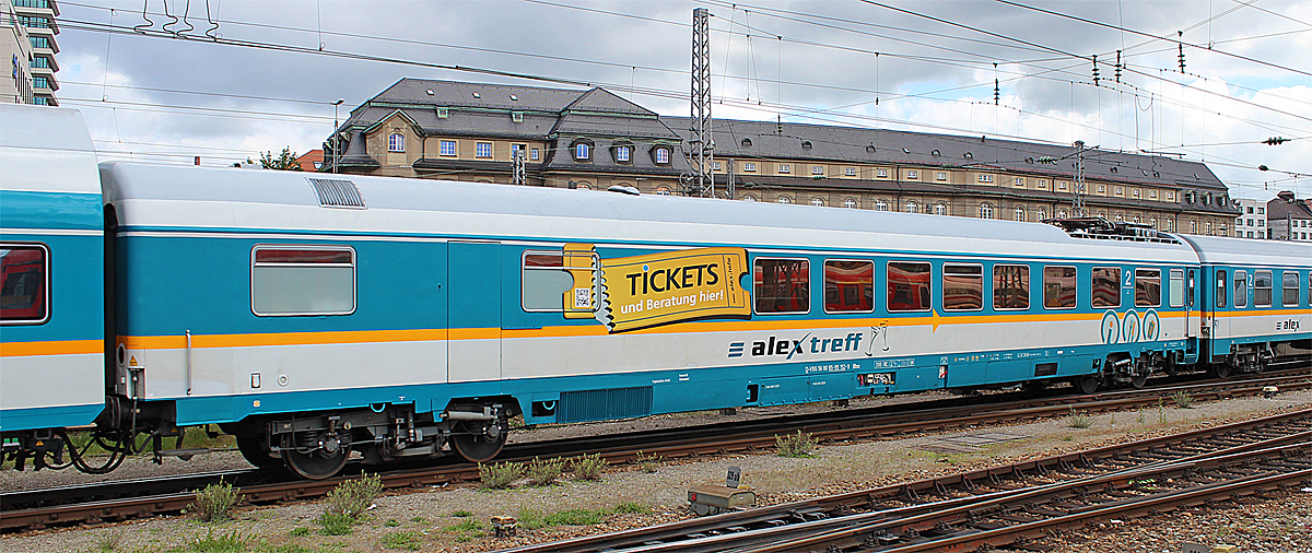 "Treff" coach D-VBG 56 80 85-95 152-9 BRmz of private operator alex at Munich Central Station. Built in the 70s as dinning car with small first class compartment for Deutsche Bundesbahn, out of service in the early 2000s. Sold and rebuilt 2007 for alex services.